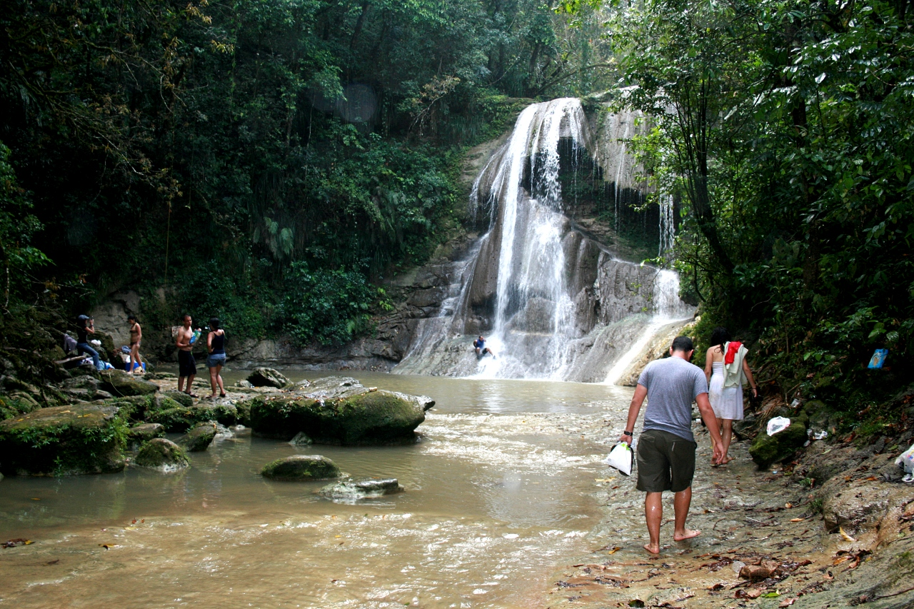 People at Gozalandia Falls in San Sebastián, Puerto Rico